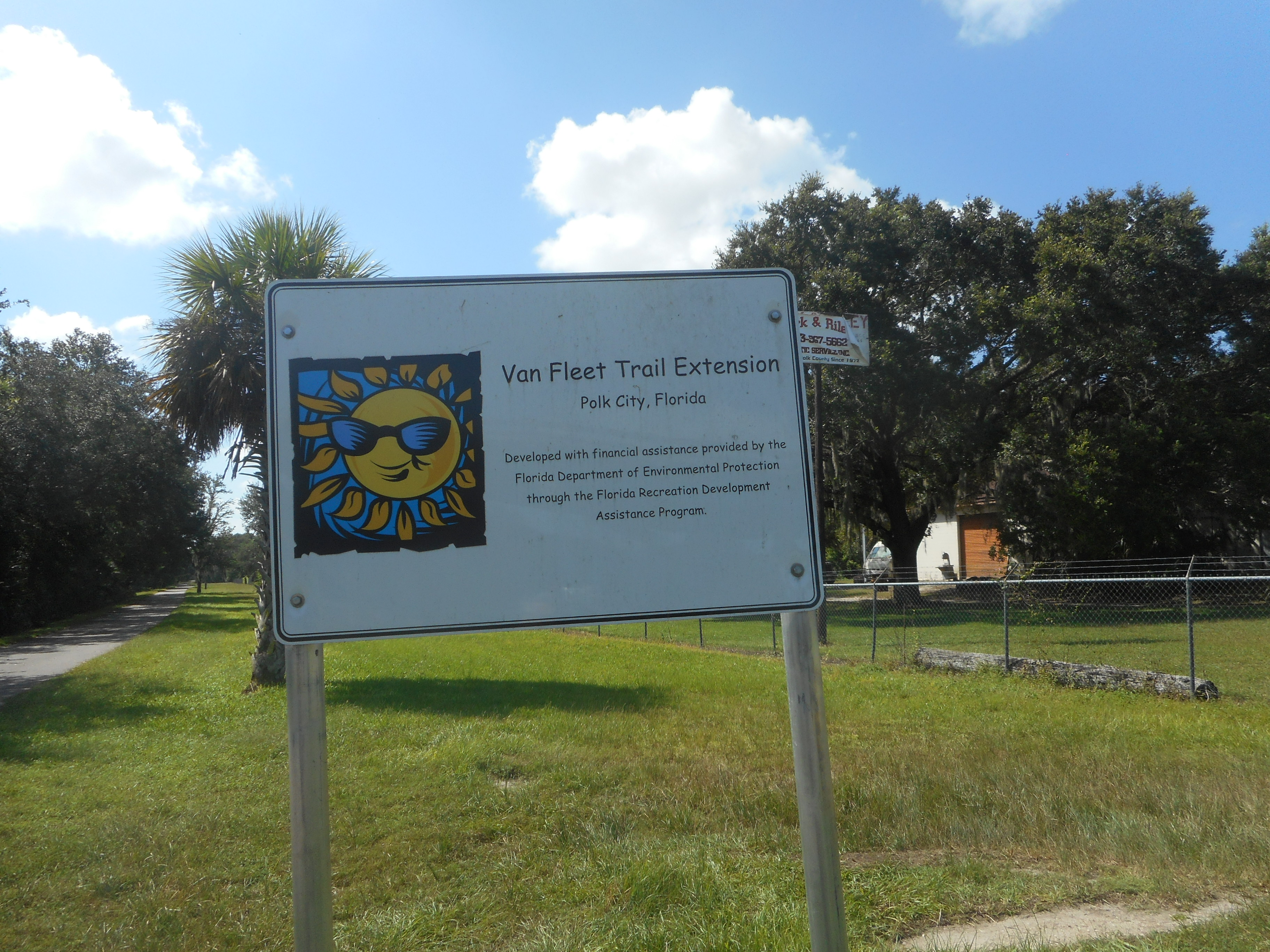 Sign for the southern extension of the General James A. Van Fleet State Trail in Polk City, Florida, which is better known as the Auburndale TECO Trail.